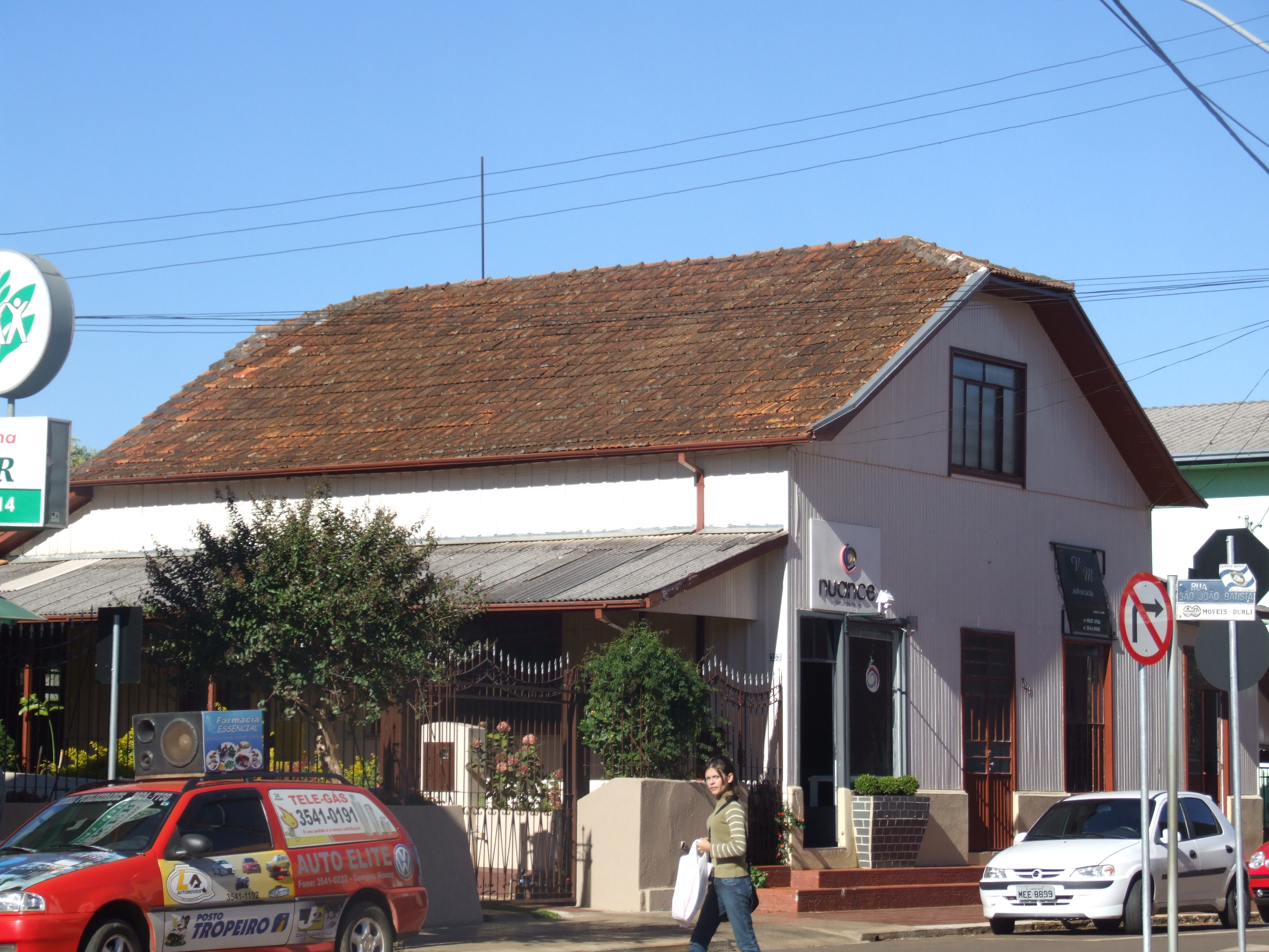 Old house with Dutch architecture, in Campos Novos, Santa Catarina, Brazil